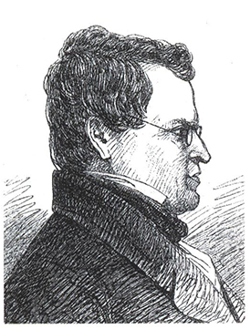 Johan Peter Theorell (1791-1861)